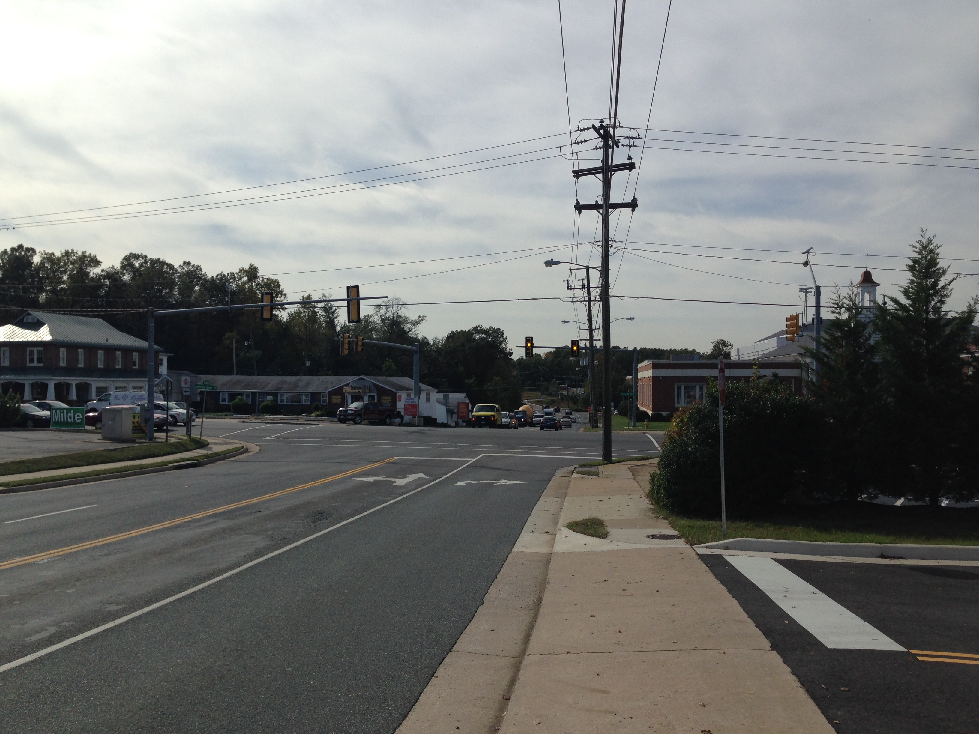 Stafford Virginia, on Courthouse Rd